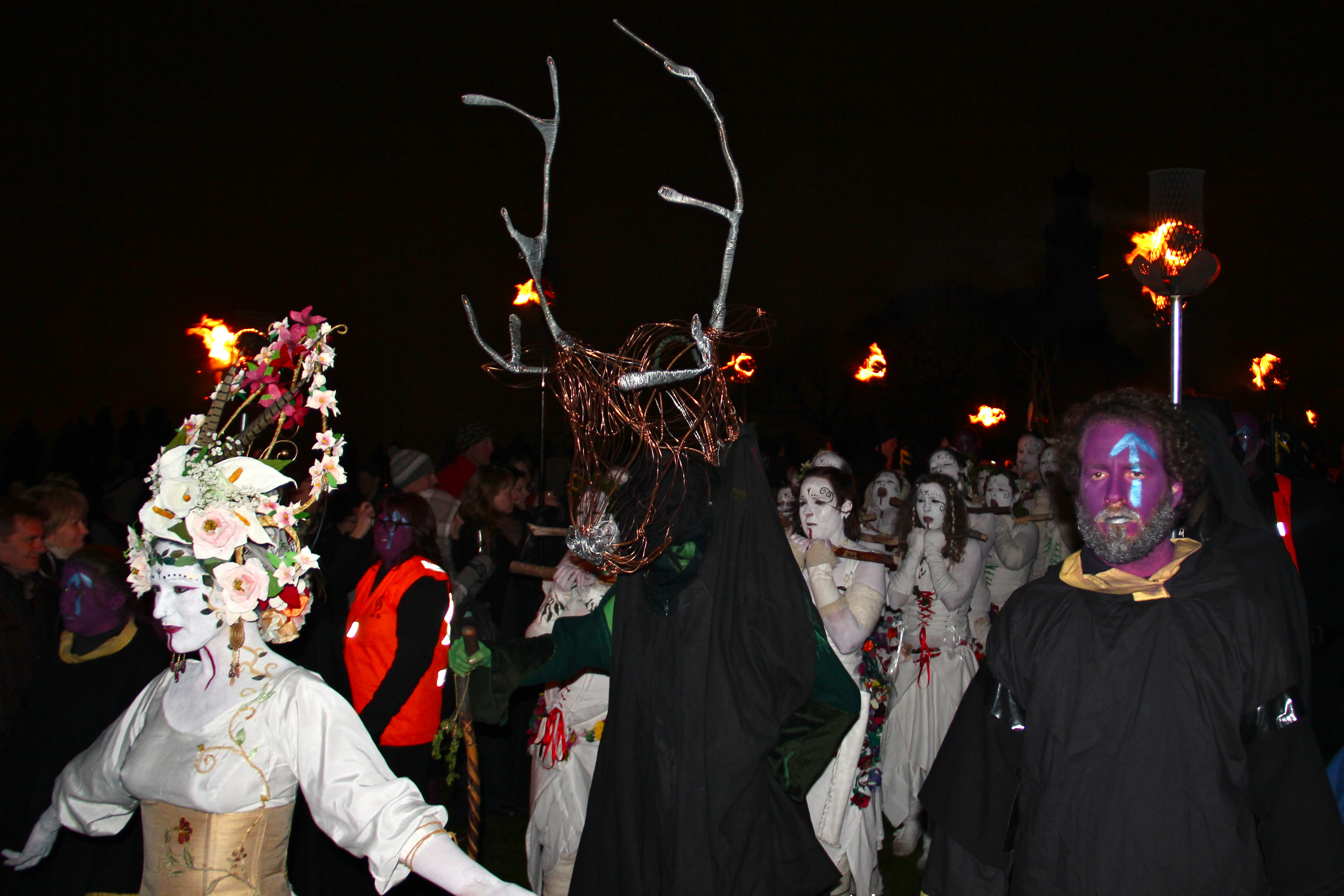 2012 Beltane Fire Festival procession on Calton Hill, Edinburgh, Scotland